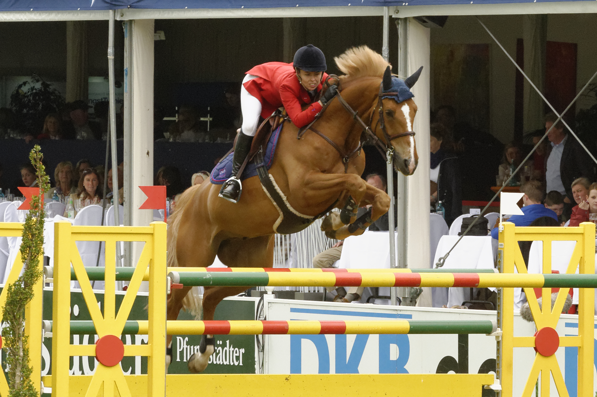 Internationales Pfingstturnier Wiesbaden 2013 The making of this document was supported by the Community-Budget of Wikimedia Germany.